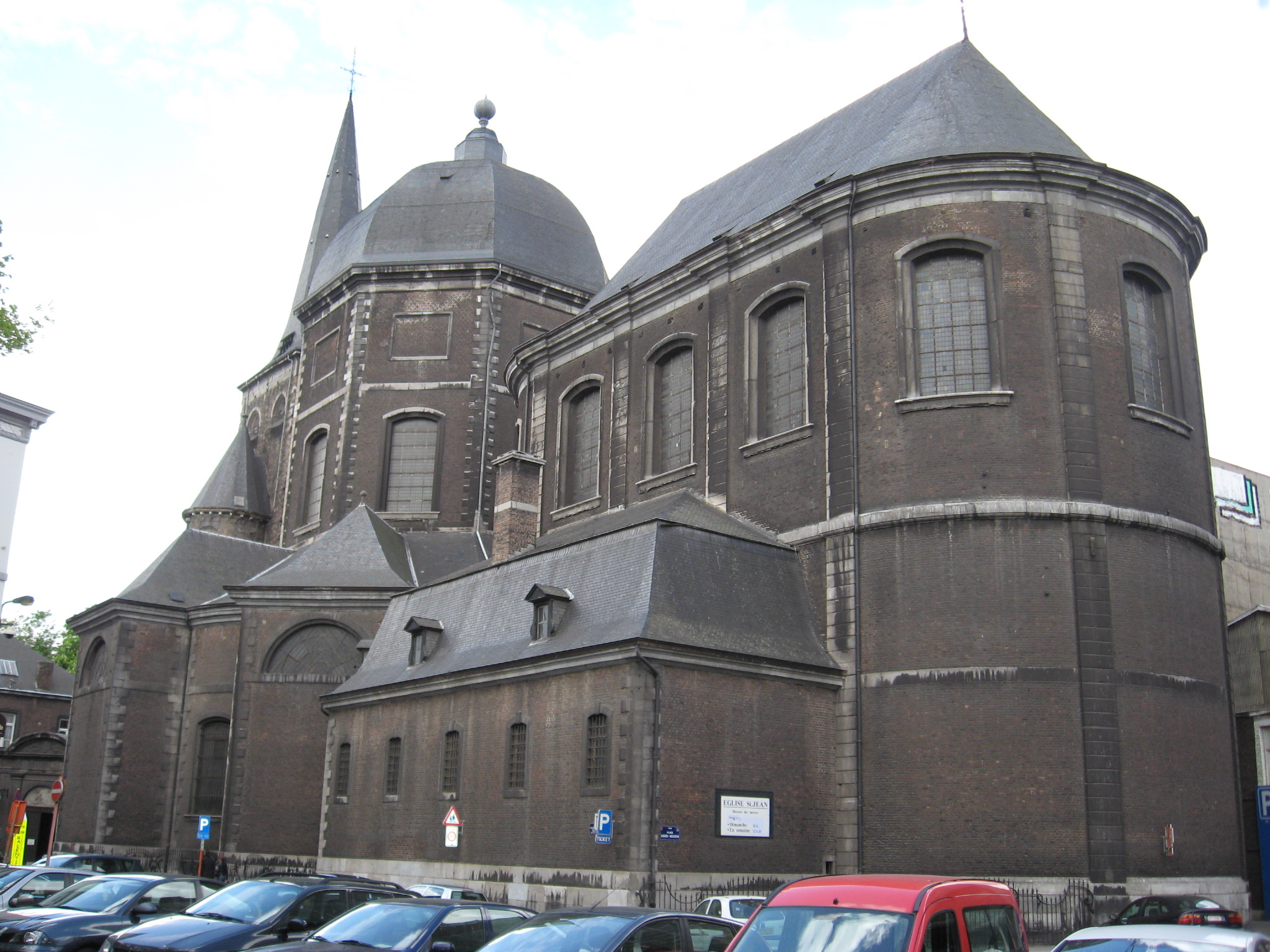 Church of Saint John the Evangelist in Liège, Belgium